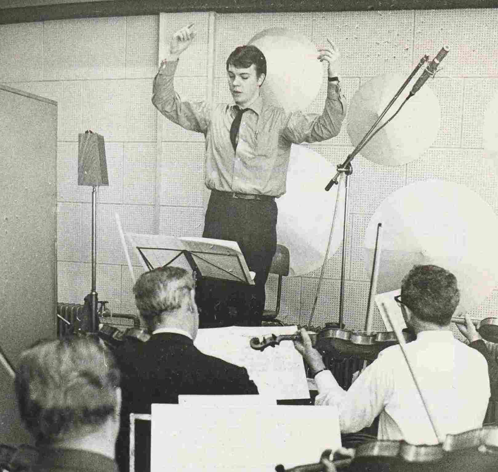 Recording at Metronome Studios